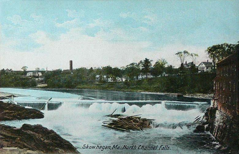 North Channel Falls, Skowhegan, ME; from a 1908 postcard published by the Hugh C. Leighton Company of Portland, Maine.